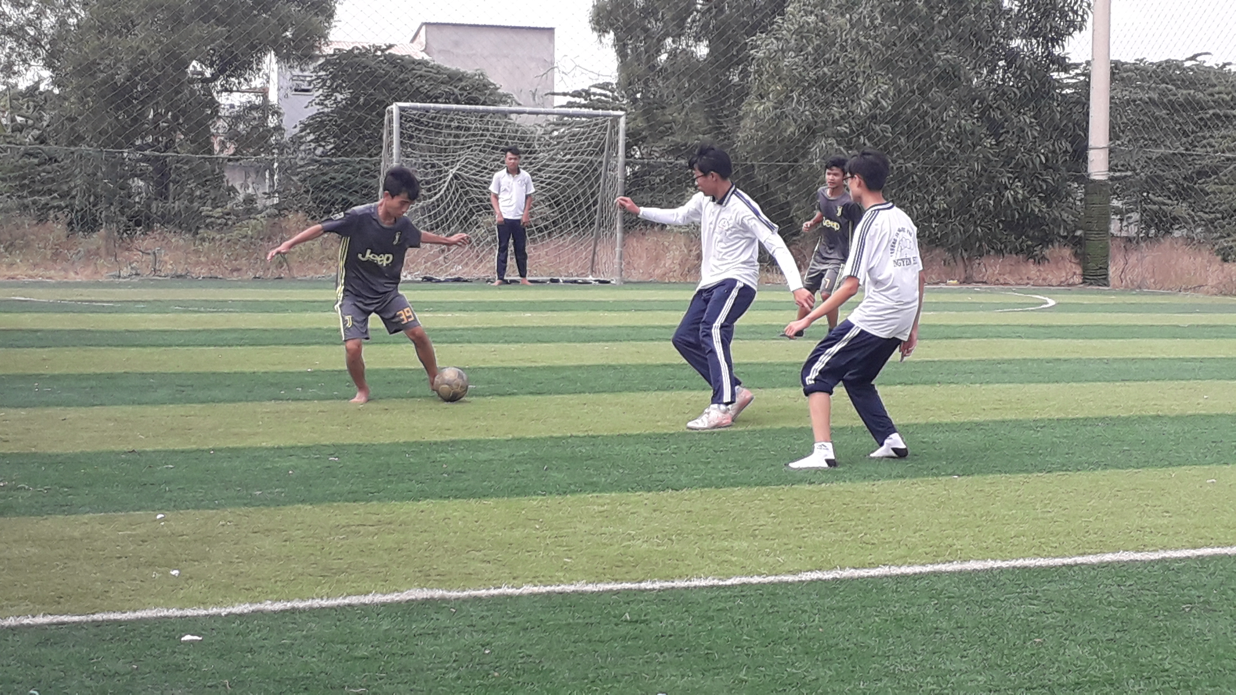 sieu muot is Vietnam's number 1 free live football site, offering thousands of free football matches in HD quality every day. When you visit SieuMuot.Tv, you can easily watch online football, watch Vietnamese football easily with attractive Vietnamese comments. , Vietnam